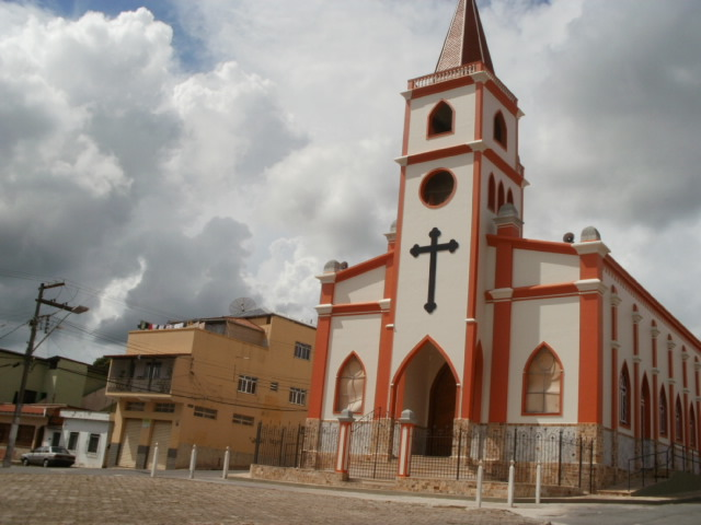 View of Saint Sebastian Parish, in Santa Cruz de Minas city, Minas Gerais, Brazil.